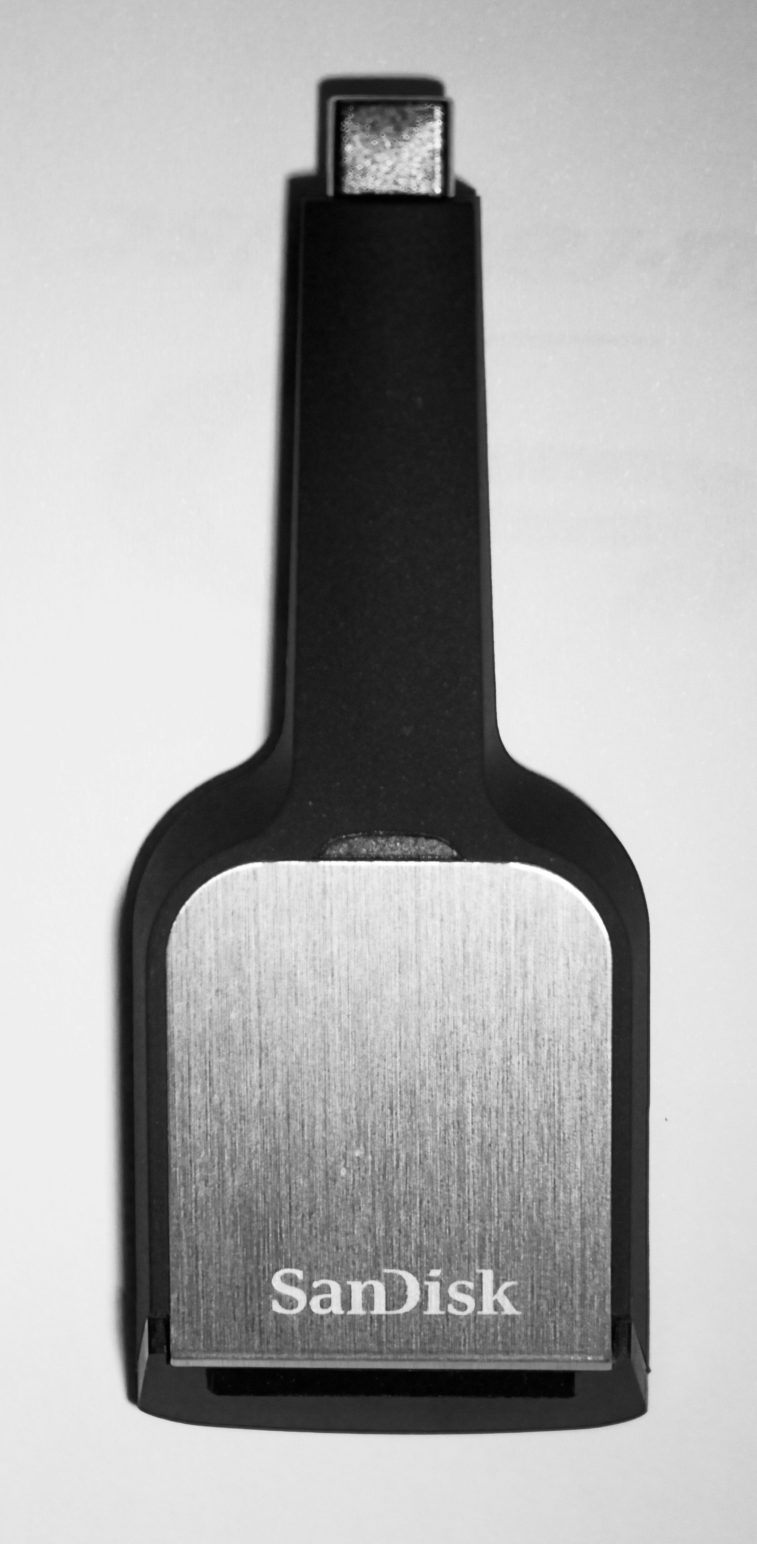 SanDisk Extreme Pro SD UHS-II USB-C Reader